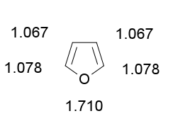 furan electronic density